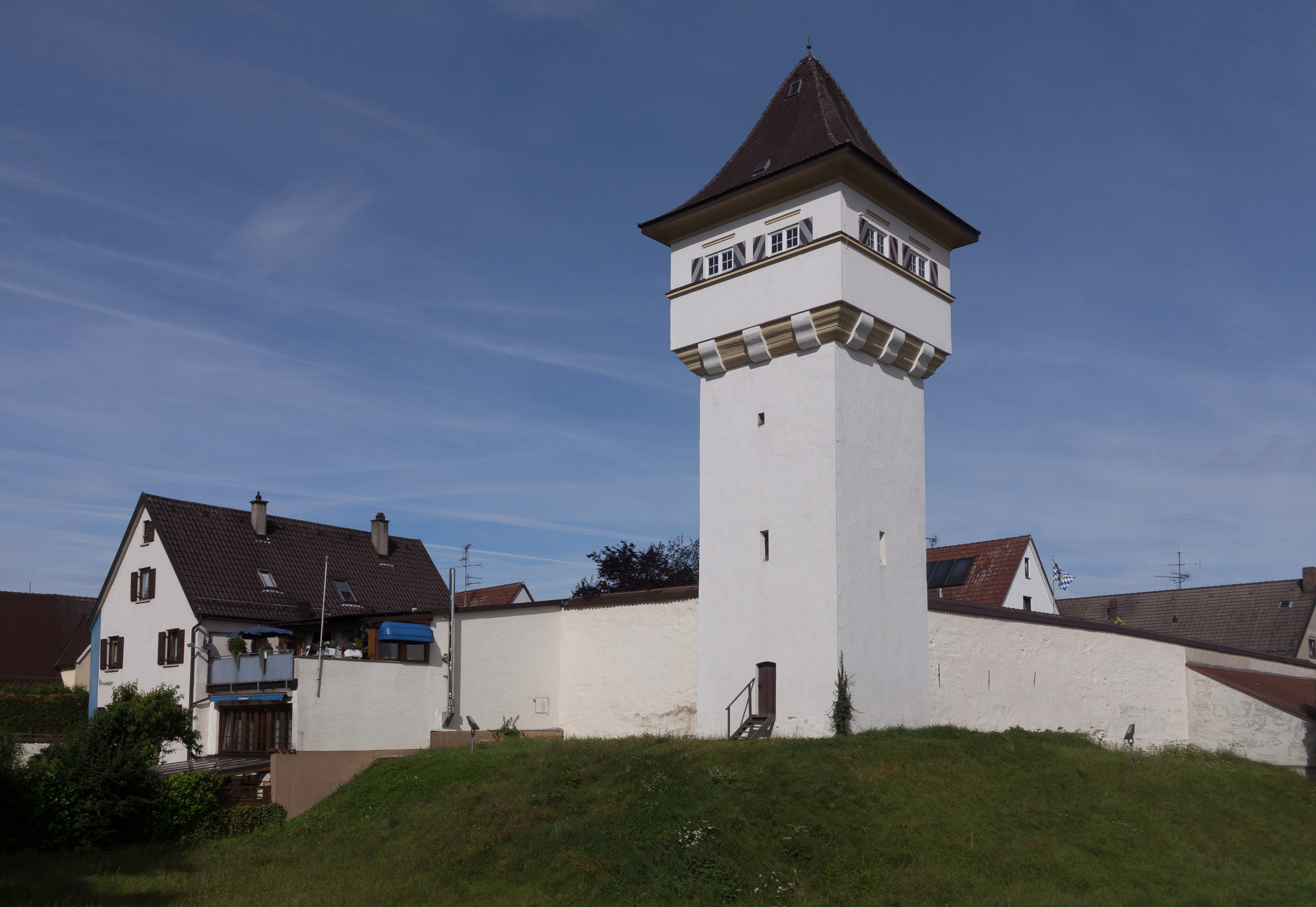 Leipheim, tower: der HauselersturmThis is a photograph of an architectural monument.